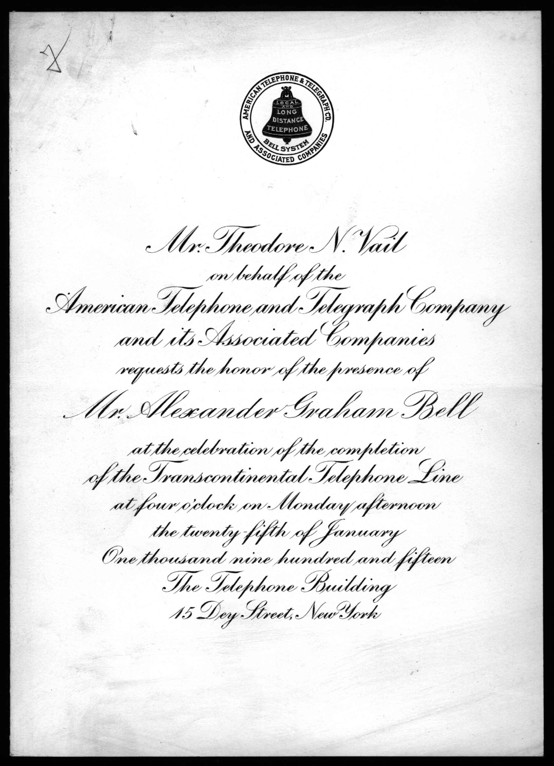 A formal invitation to Alexander Graham Bell to inaugurate the first U.S. transcontinental telephone line, from New York to San Francisco, in 1915. The invitation was extended to Bell by Theodore Vail, then president of AT&T, the American Bell Telephone Company's successor.